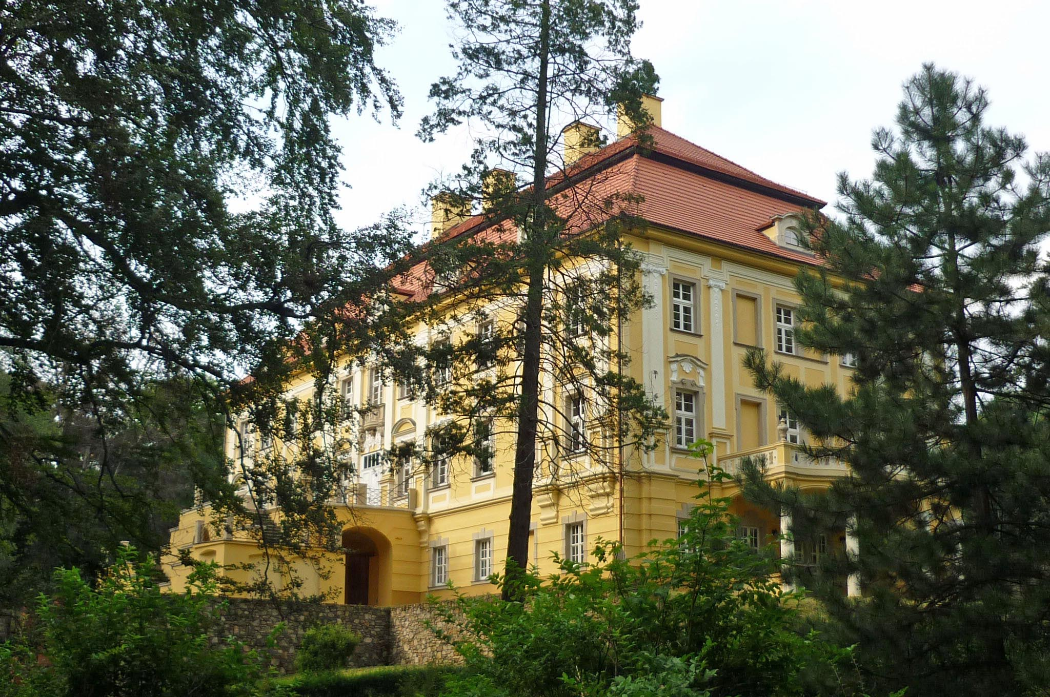 Palace in Biedrzychowice, Poland